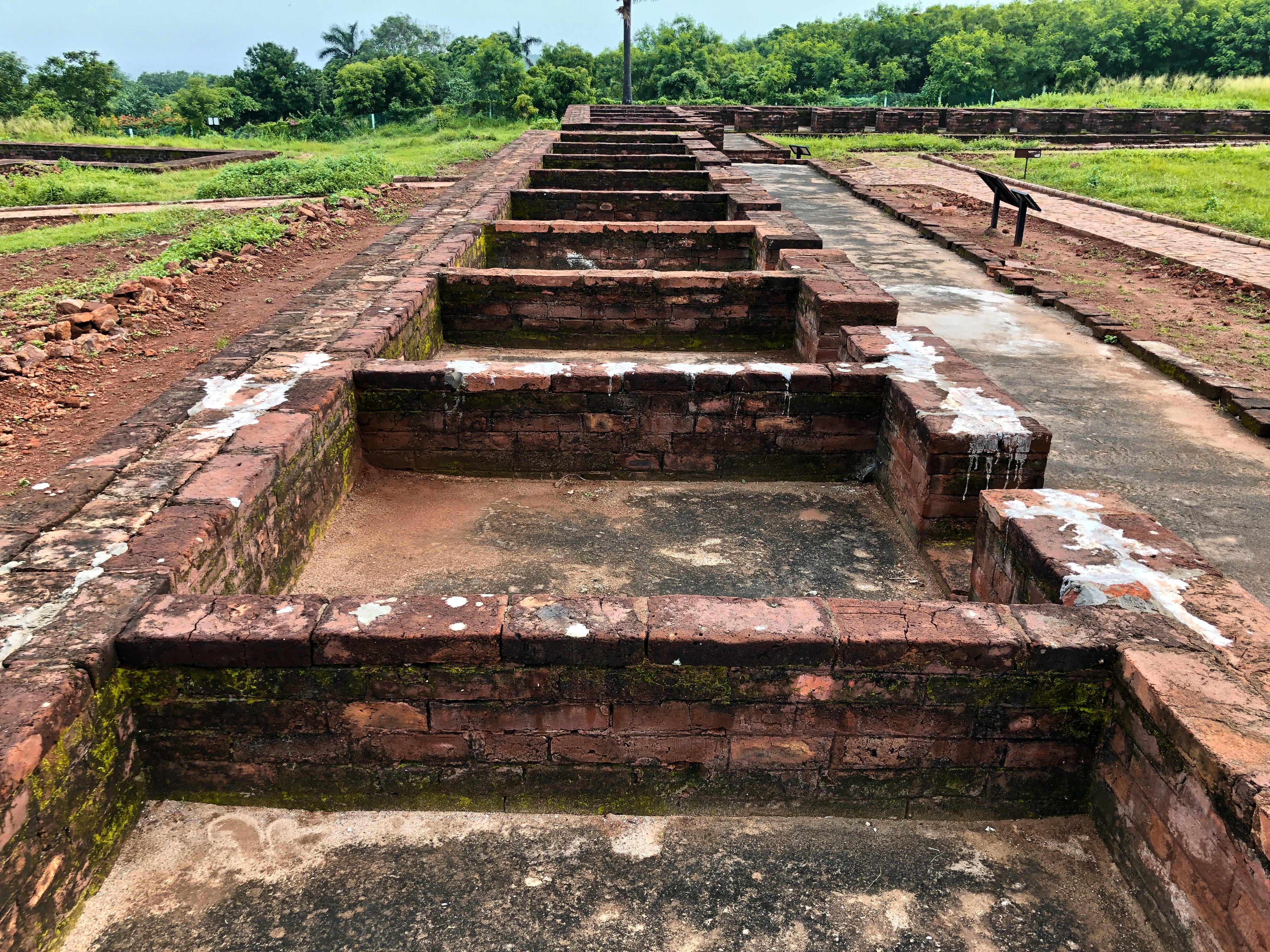 Thotlakonda Buddhist Complex is situated on a hill near Bheemunipatnam. The hill is about 128 metres (420 ft) above sea level and overlooks the sea. The Telugu name Toṭlakoṇḍa derived from the presence of a number of rock-cut cisterns hewn into the bedrock of the hillock.